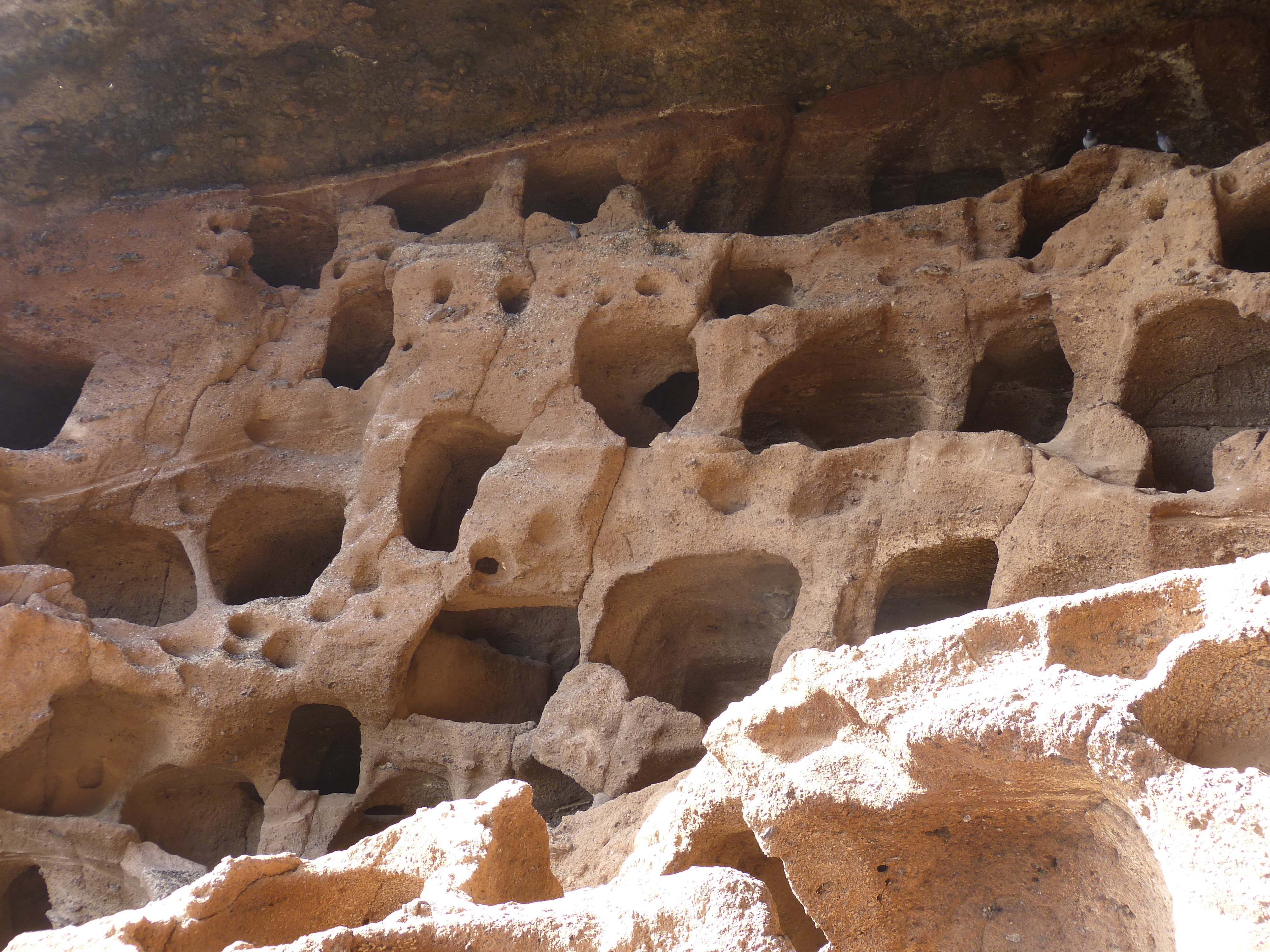 Cenobio de Valerón ( Gran Canaria ). Caves